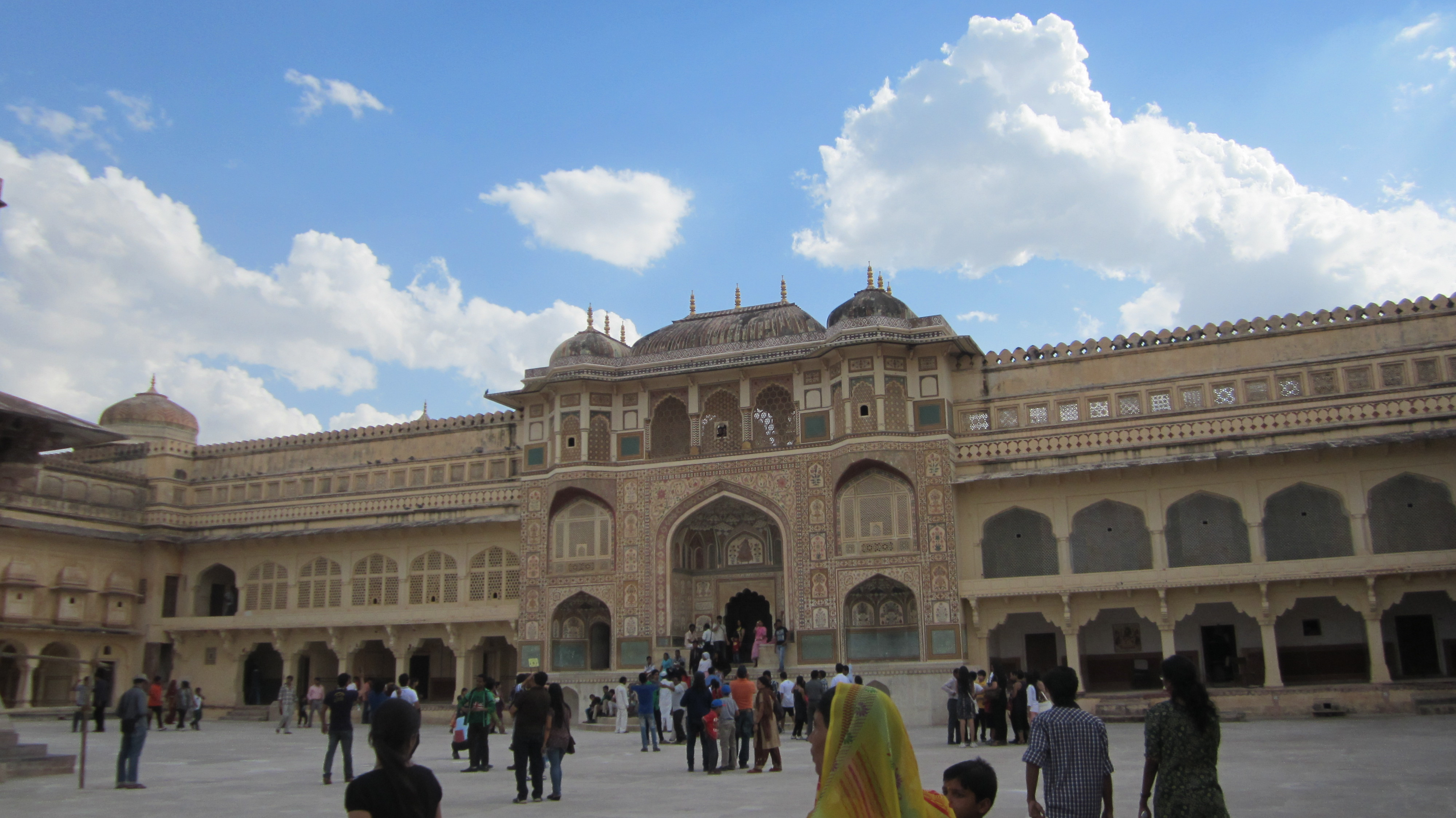 Ganesh Pol located inside the Amber Fort